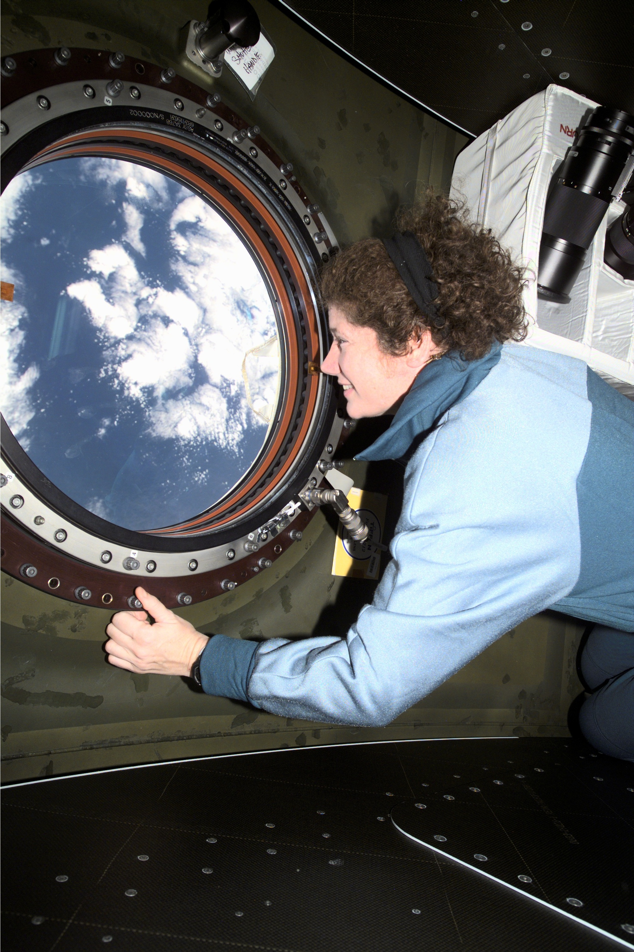 Astronaut Susan J. Helms, Expedition Two flight engineer, views the topography of a point on Earth from the nadir window in the U.S. Laboratory / Destiny module of the International Space Station (ISS).